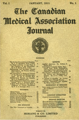 Cover of the first issue of Canadian Medical Association Journal.